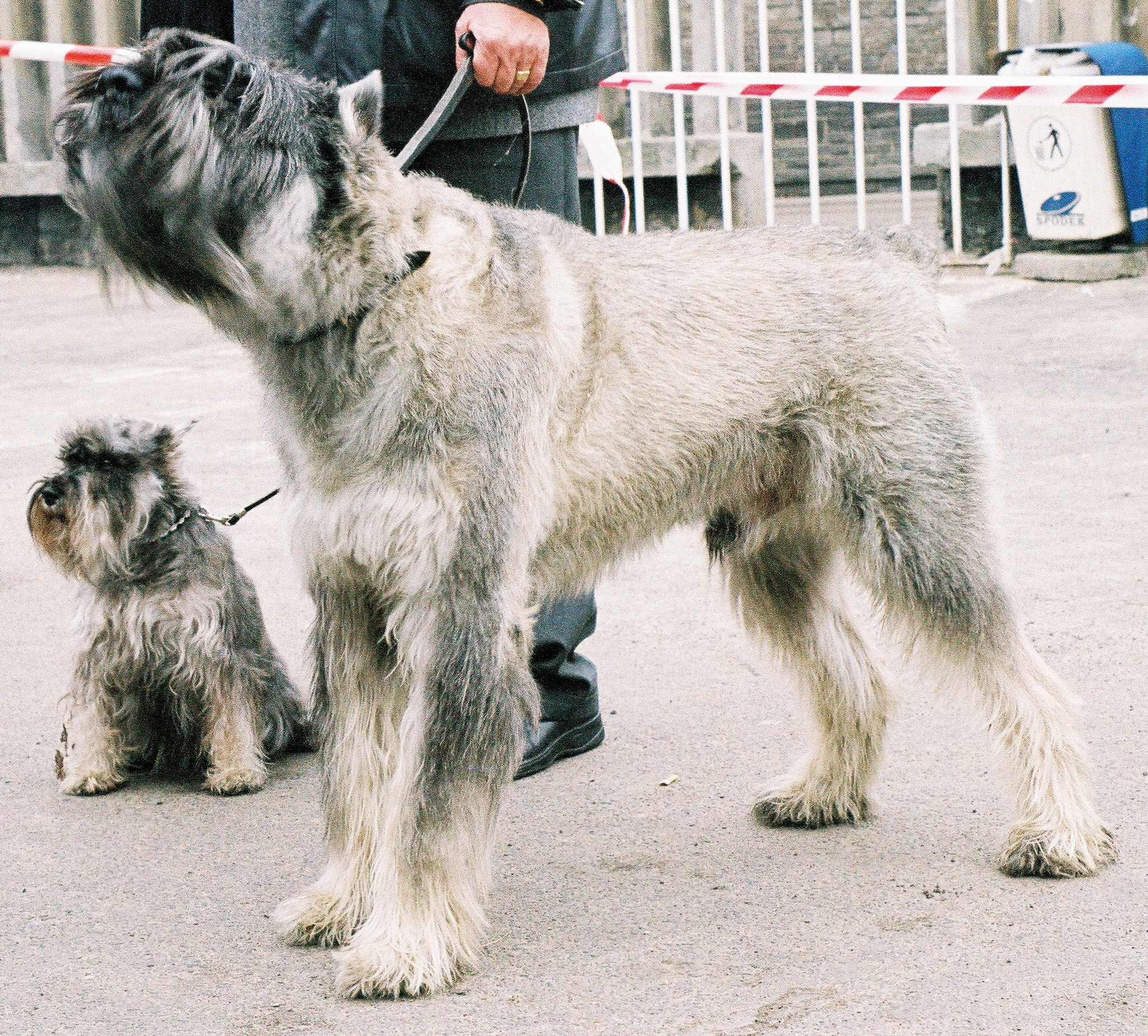 A salt and pepper Giant Schnauzer next to a salt and pepper Miniature Schnauzer.